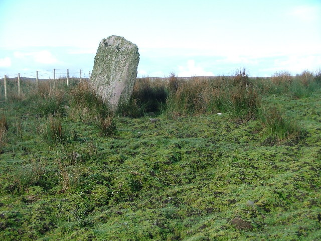 Carragh Bhan. One of many standing stones scattered around the island.